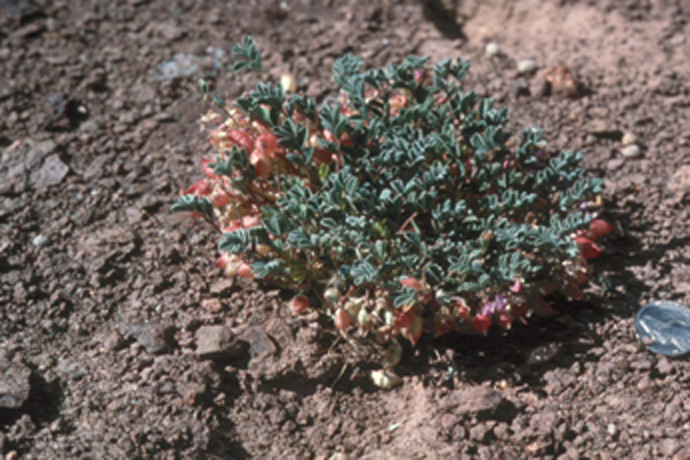 Beatley’s milkvetch (Astragalus beatleyae).